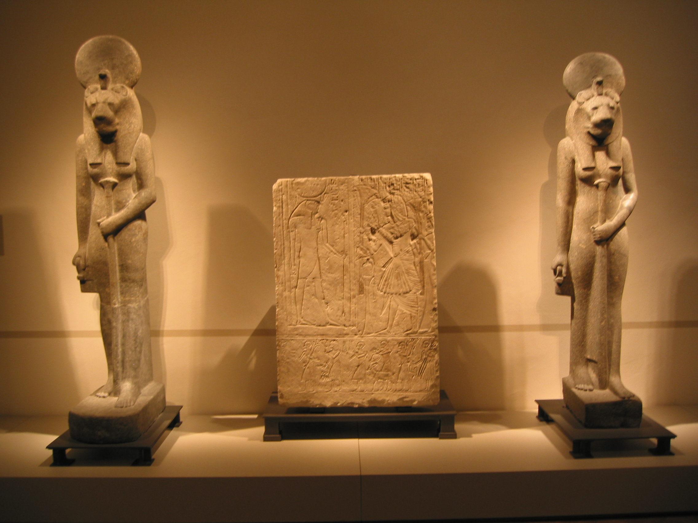 Object in the Ägyptisches Museum Berlin (Egyptian museum, building of the New Museum), Berlin.